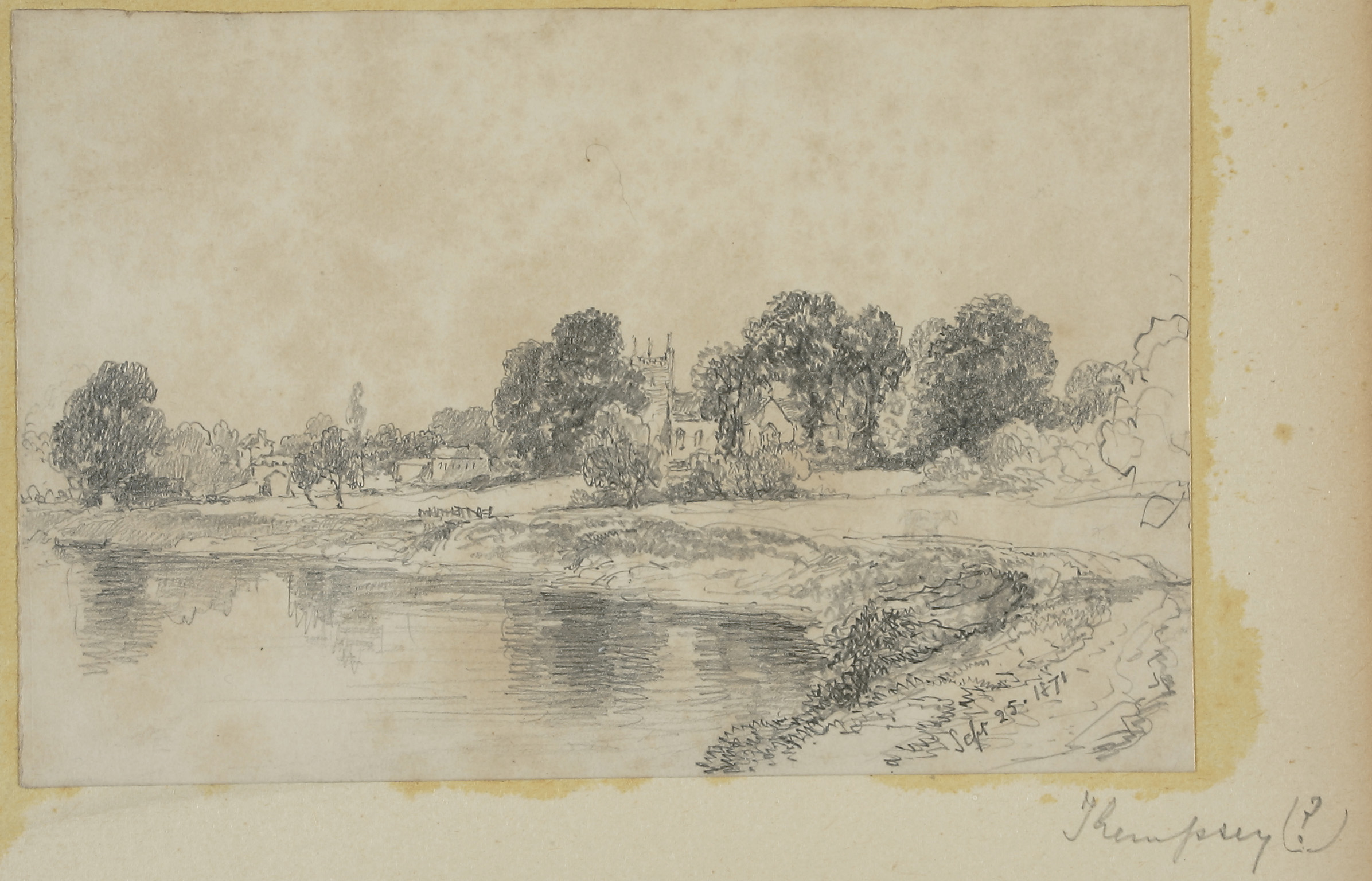 Kempsey on Severn, Worcestershire, England. Pencil on paper; 208 x 135mm Inscr. br.: Sept 25. 1871, and on mount br.: Kempsey (?) Accession: BIRSA:2007X.518 From the Lines family sketchbook, in the collection of the Royal Birmingham Society of Artists, Birmingham, England. See Rediscovering the Lines Family - Exhibition catalogue - 2009.